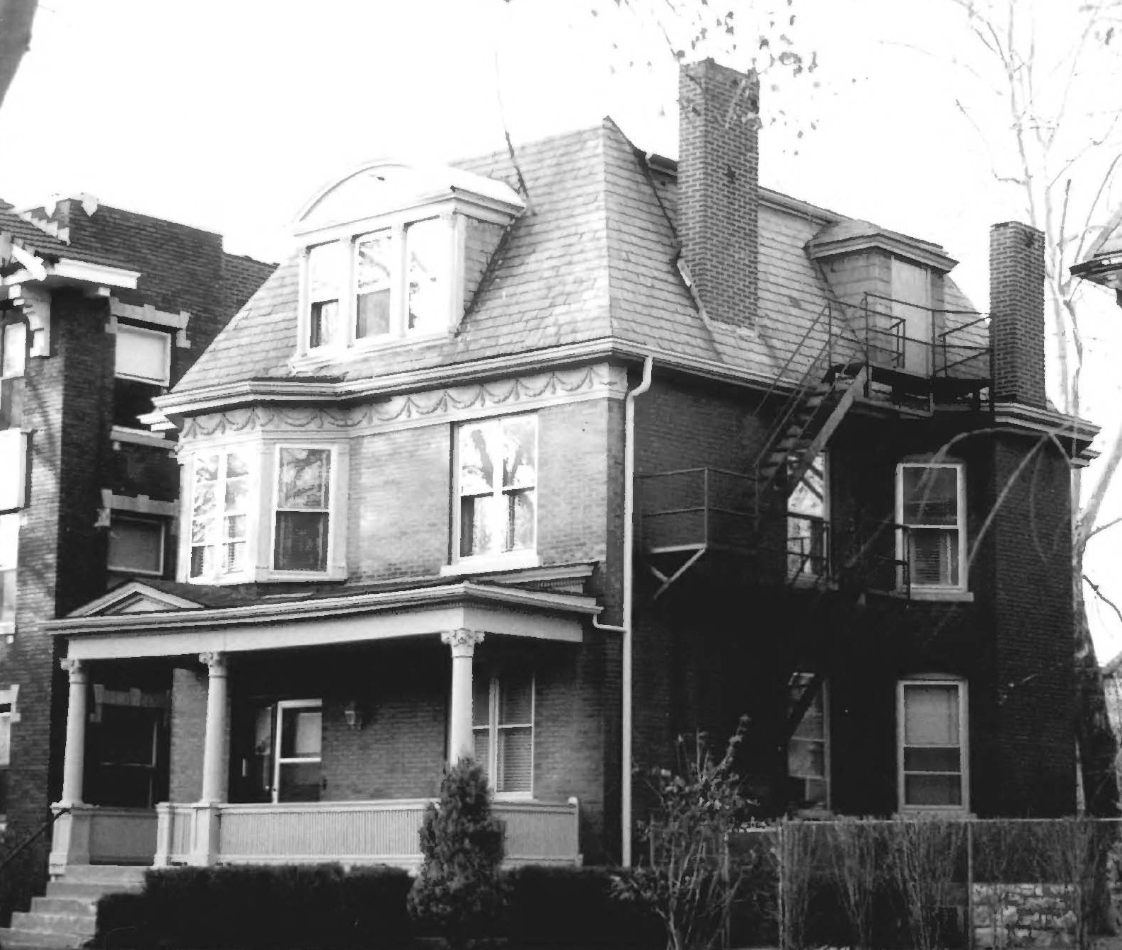 Joseph Erlanger House, St. Louis, Missouri Converted from pdf and cropped This image or media file contains material based on a work of a National Park Service employee, created as part of that person's official duties. As a work of the U.S. federal government, such work is in the public domain in the United States. See the NPS website and NPS copyright policy for more information. Object location38° 38′ 55″ N, 90° 16′ 04″ W